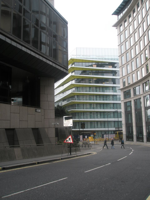 Looking down Arthur Street towards Lower Thames Street